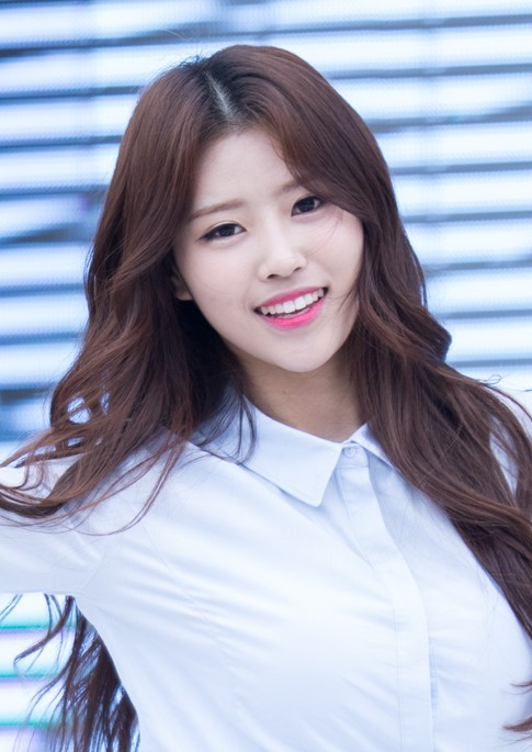 Lee Mijoo at 1won 1m charity concert, 30 May 2015